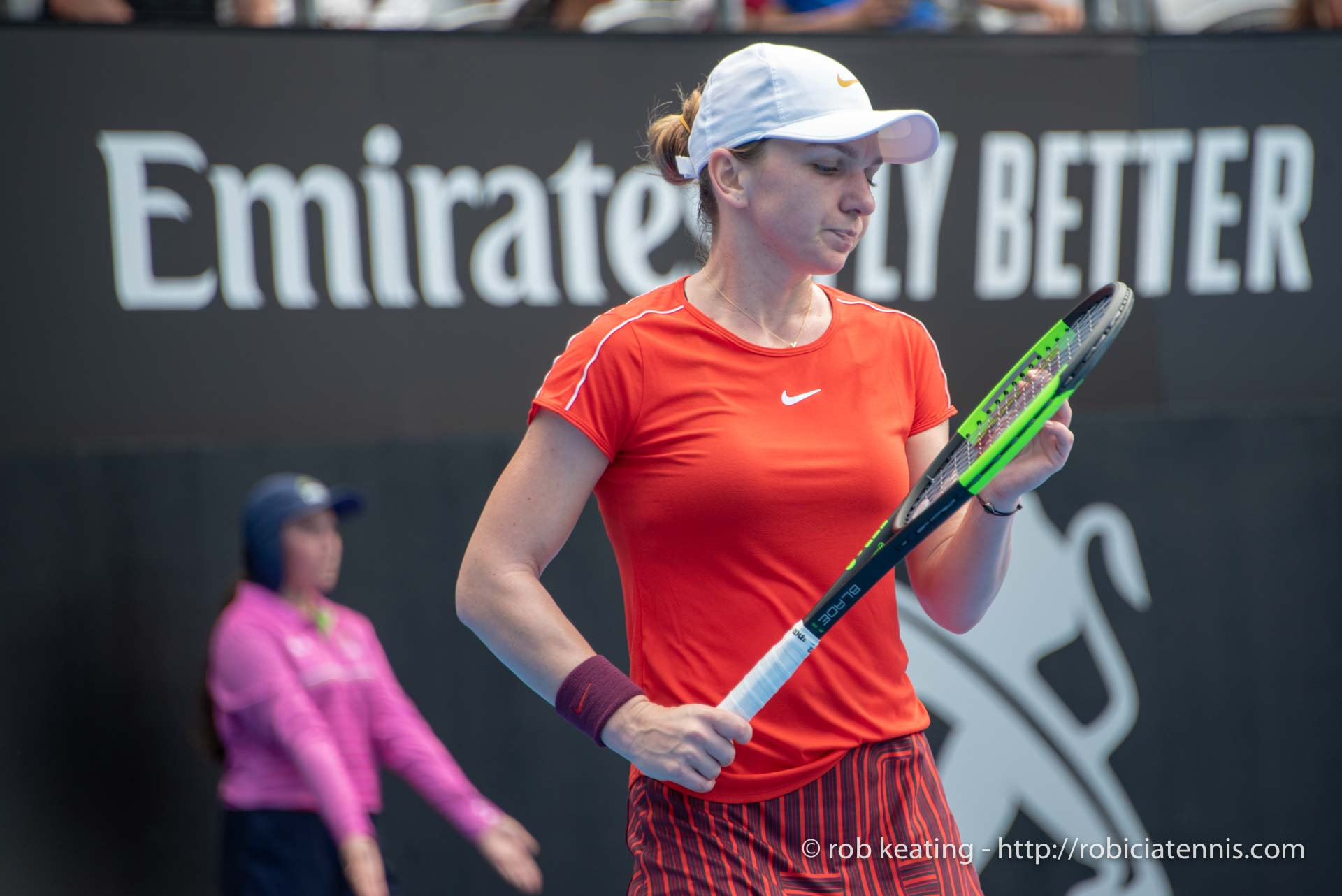 Sydney, Australia - 9 January 2019: Romanian world no. 1 Simona Halep in her second round match at the Sydney International tennis against Australia's Ashleigh Barty. (Photo by Rob Keating/robiciatennis.com)